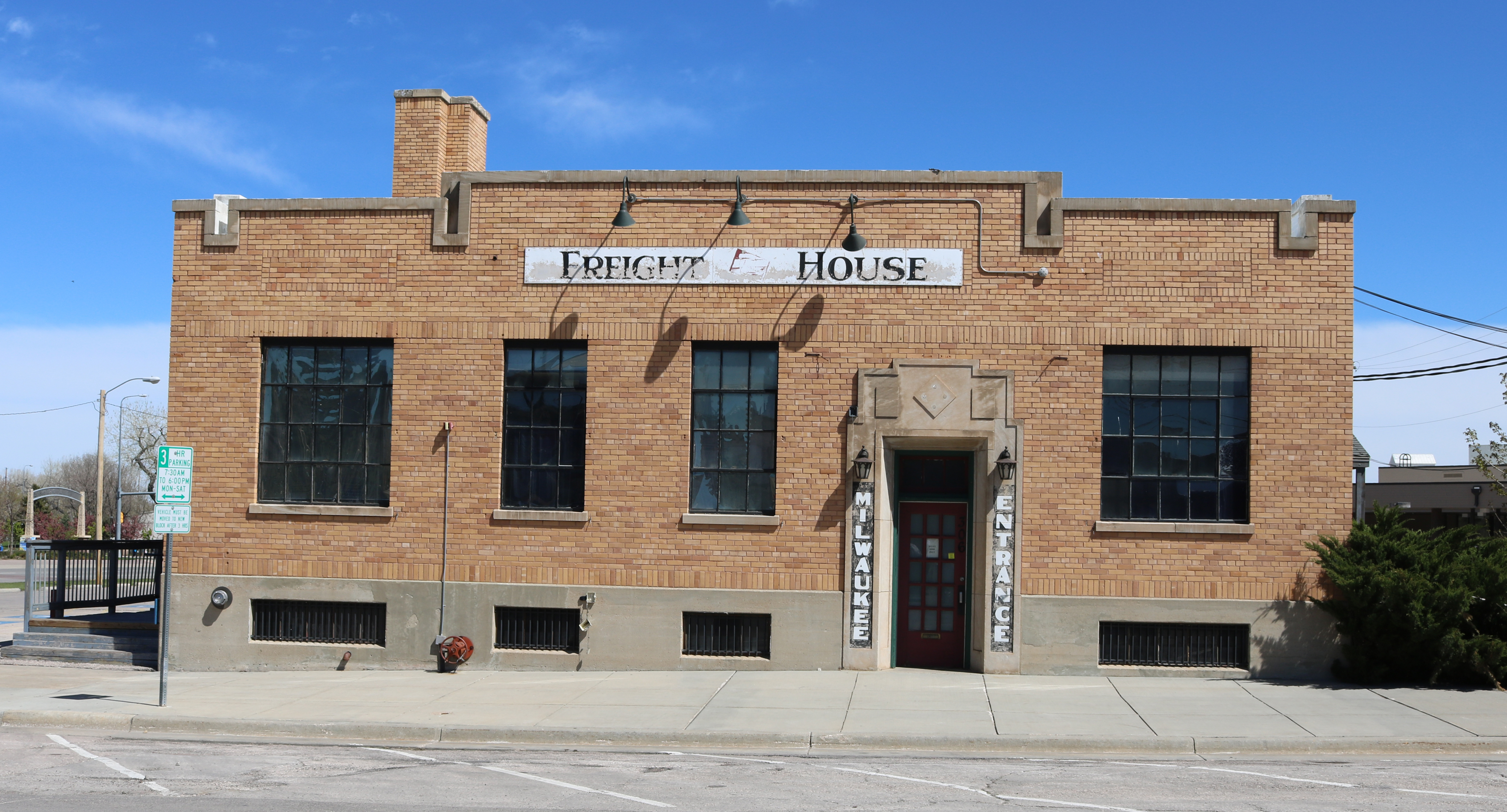 The Milwaukee Road Freight House, located at 306 7th Street in Rapid City, South Dakota. The property is listed on the National Register of Historic Places.